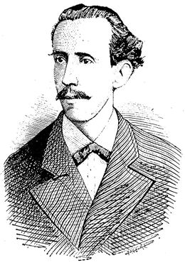 Pío_Rosado_Lorié